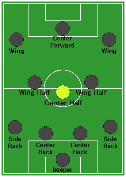 Position of CenterHalf